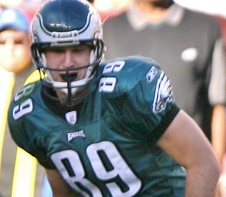 Ade Jimoh, cornerback/#32 for the Washington Redskins, recovers fumble in front of Philadelphia Eagles tight end #89 Matt Schobel.